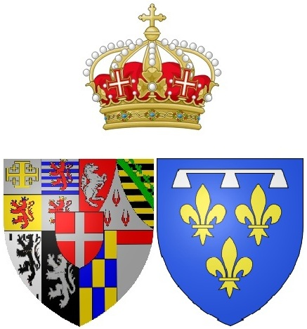 Arms of Françoise Madeleine d'Orléans Duchess of Savoy